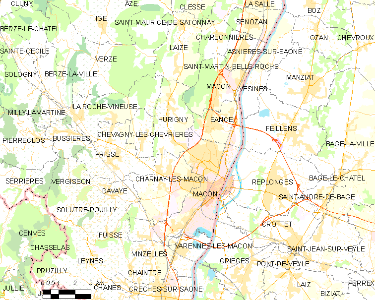 Map of French municipality